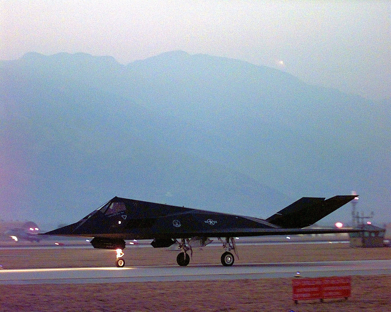 A U.S. Air Force F-117 Nighthawk taxis out for take off from Aviano Air Base, Italy, for an air strike mission in support of NATO Operation Allied Force on March 24, 1999. Operation Allied Force is the air operation against targets in the Federal Republic of Yugoslavia. The Nighthawk is deployed to Aviano from the 49th Fighter Squadron, Holloman Air Force Base, N.M. DoD photo by Senior Airman Jeffrey Allen, U.S. Air Force. (Released) 990324-F-2171A-023_screen.jpg